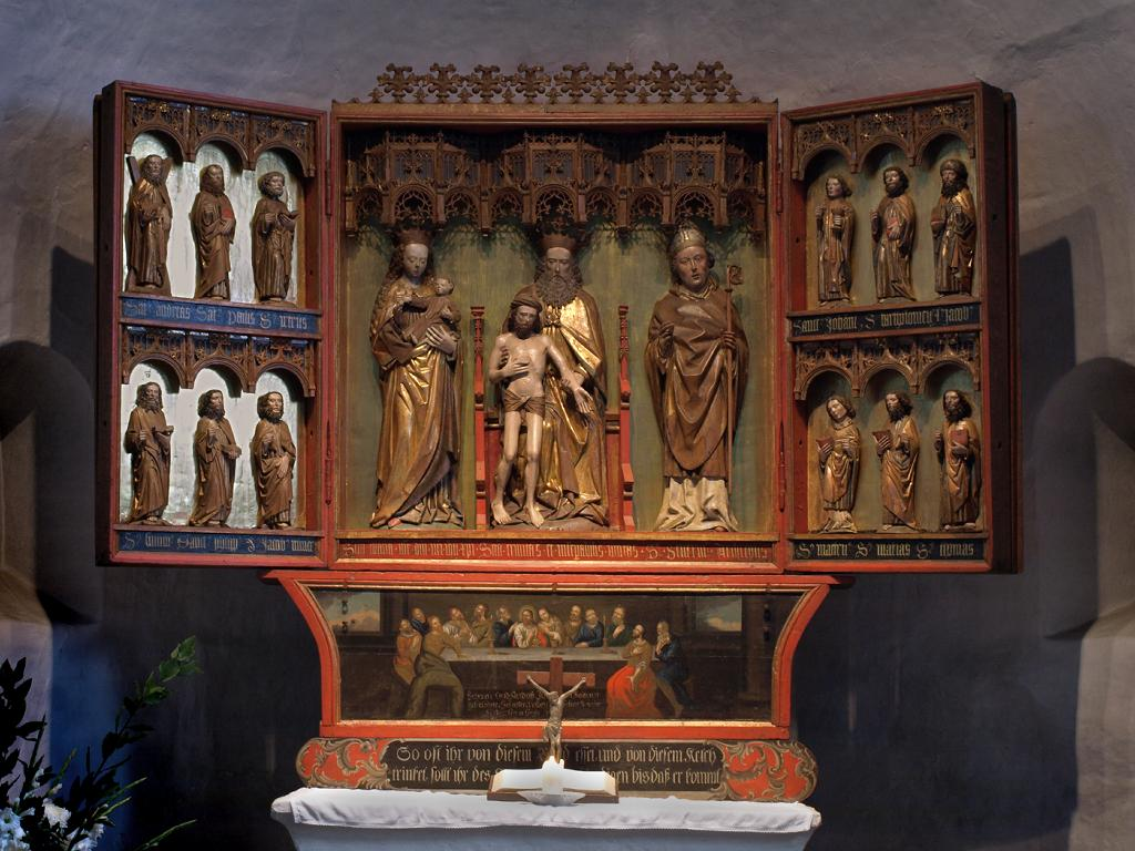 Keitum (Sylt), Slesvic-Holstein (Germany): church, altar, photo 2008